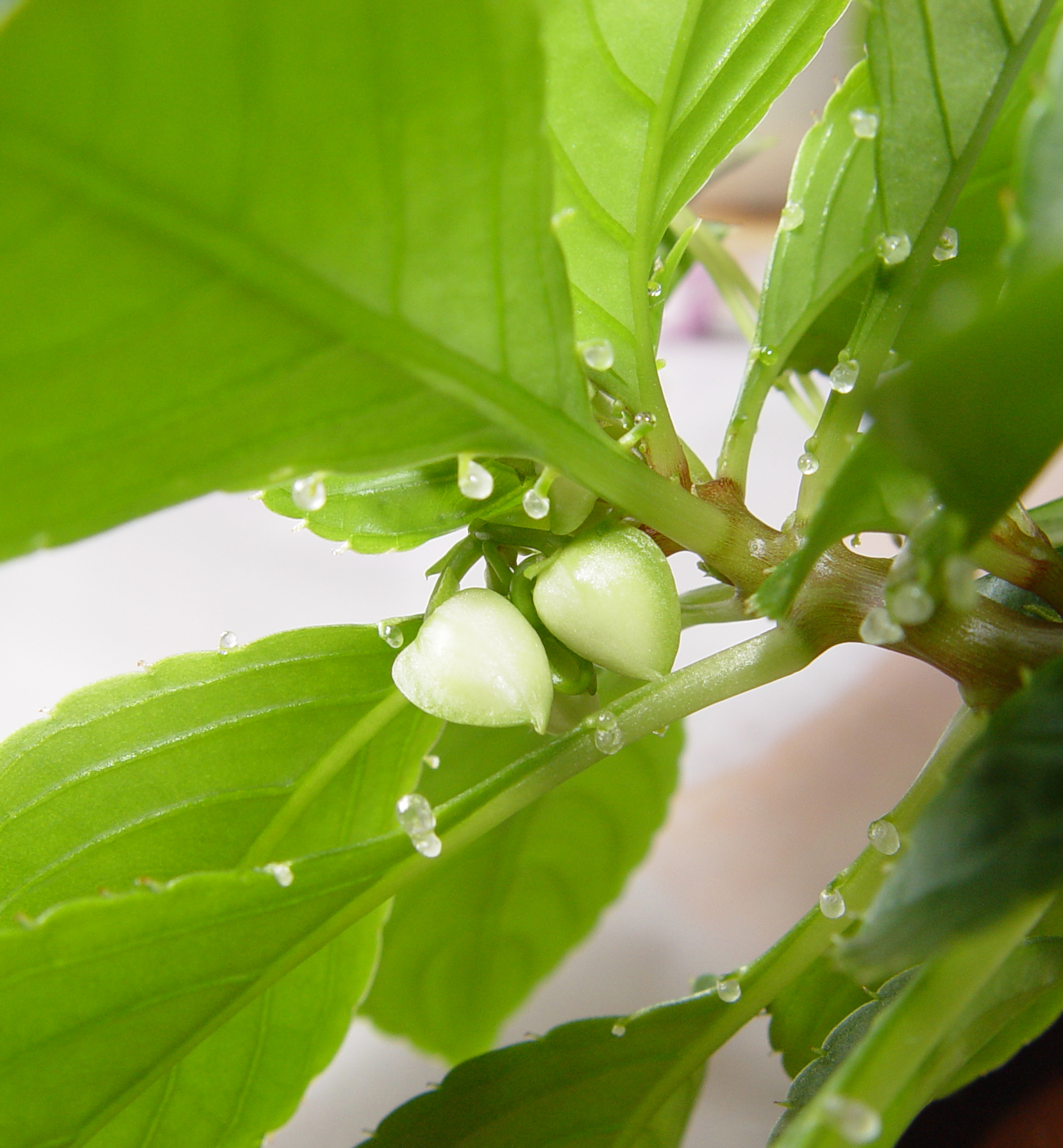 Impatiens walleriana F1 "Carnival" lavender blue